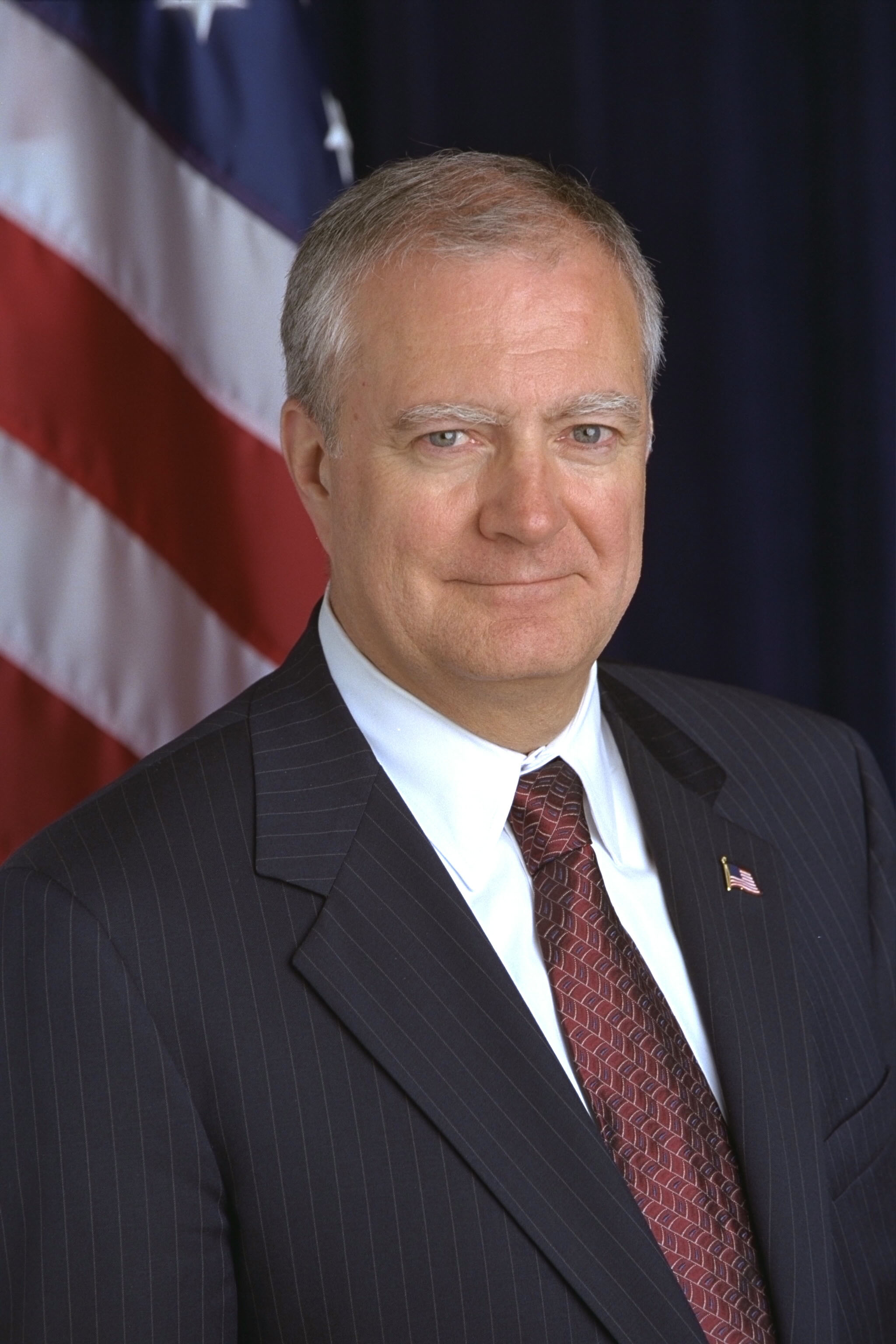 John H. Marburger, III, the Director of the Office of Science and Technology Policy during the George W. Bush administration